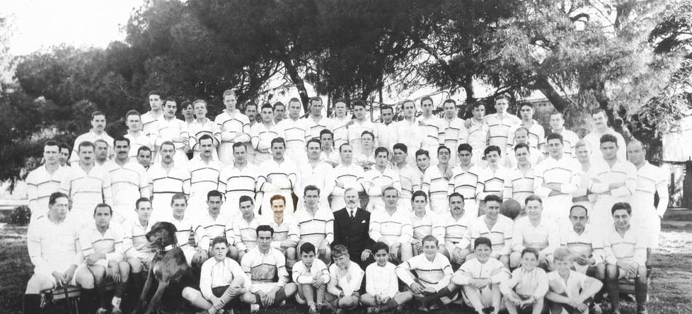 All the San Isidro Club teams together in 1937. The club had been established two years before.